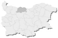 Map of Bulgaria, Pleven Oblast.